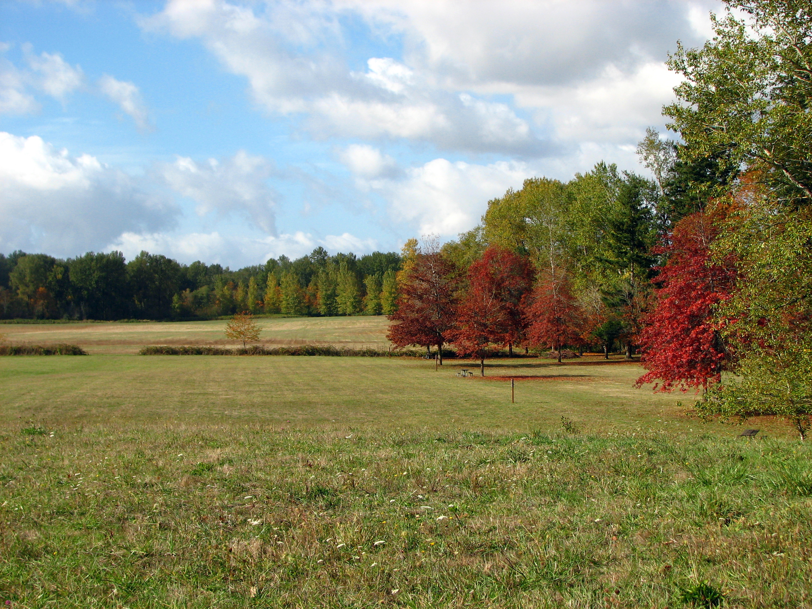 An open field at Molalla River State Park near Canby, Oregon, United States, in autumn.